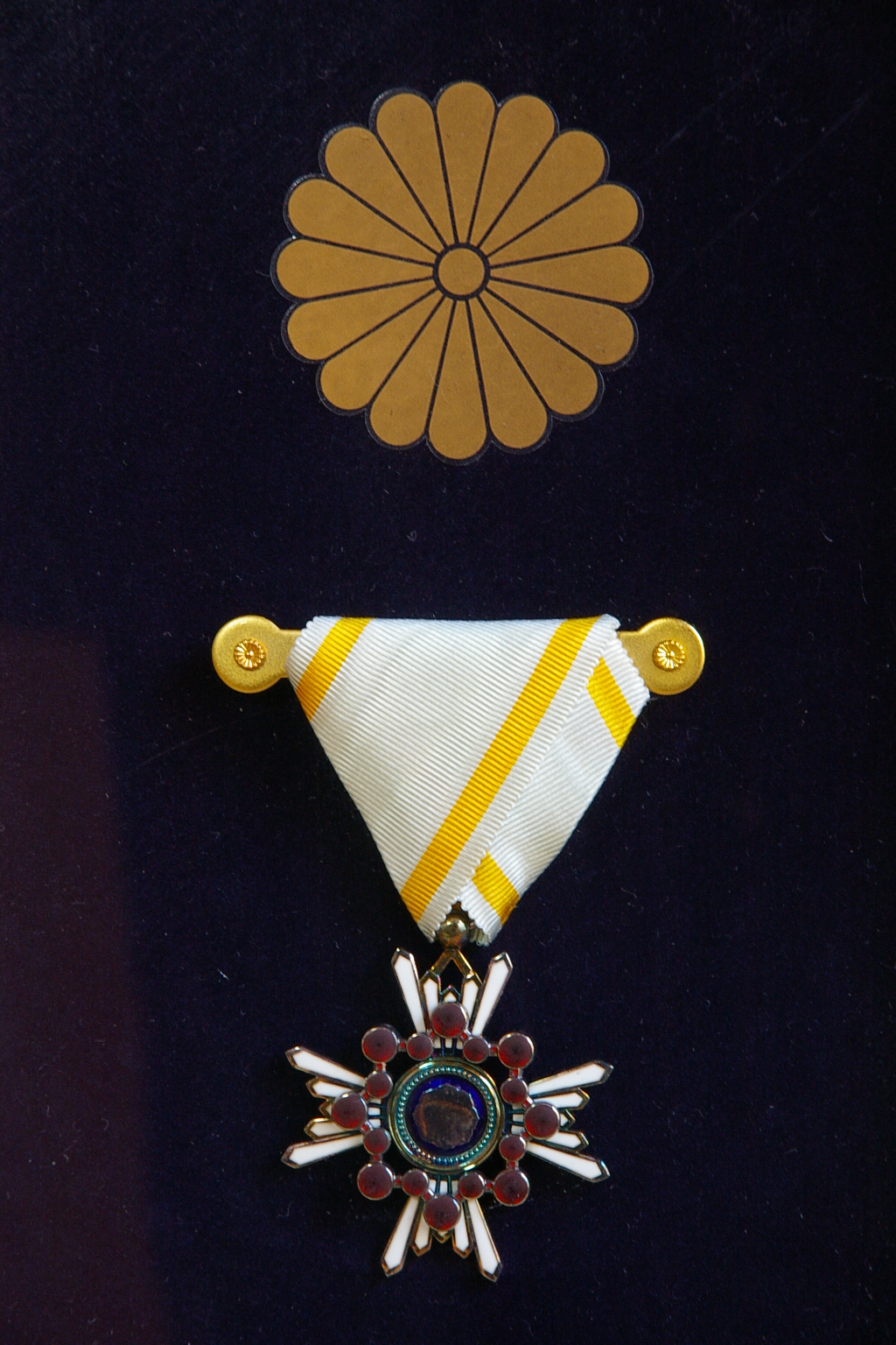 Orders of the Sacred Treasure class5 with Wearing Bar after WWⅡtype.